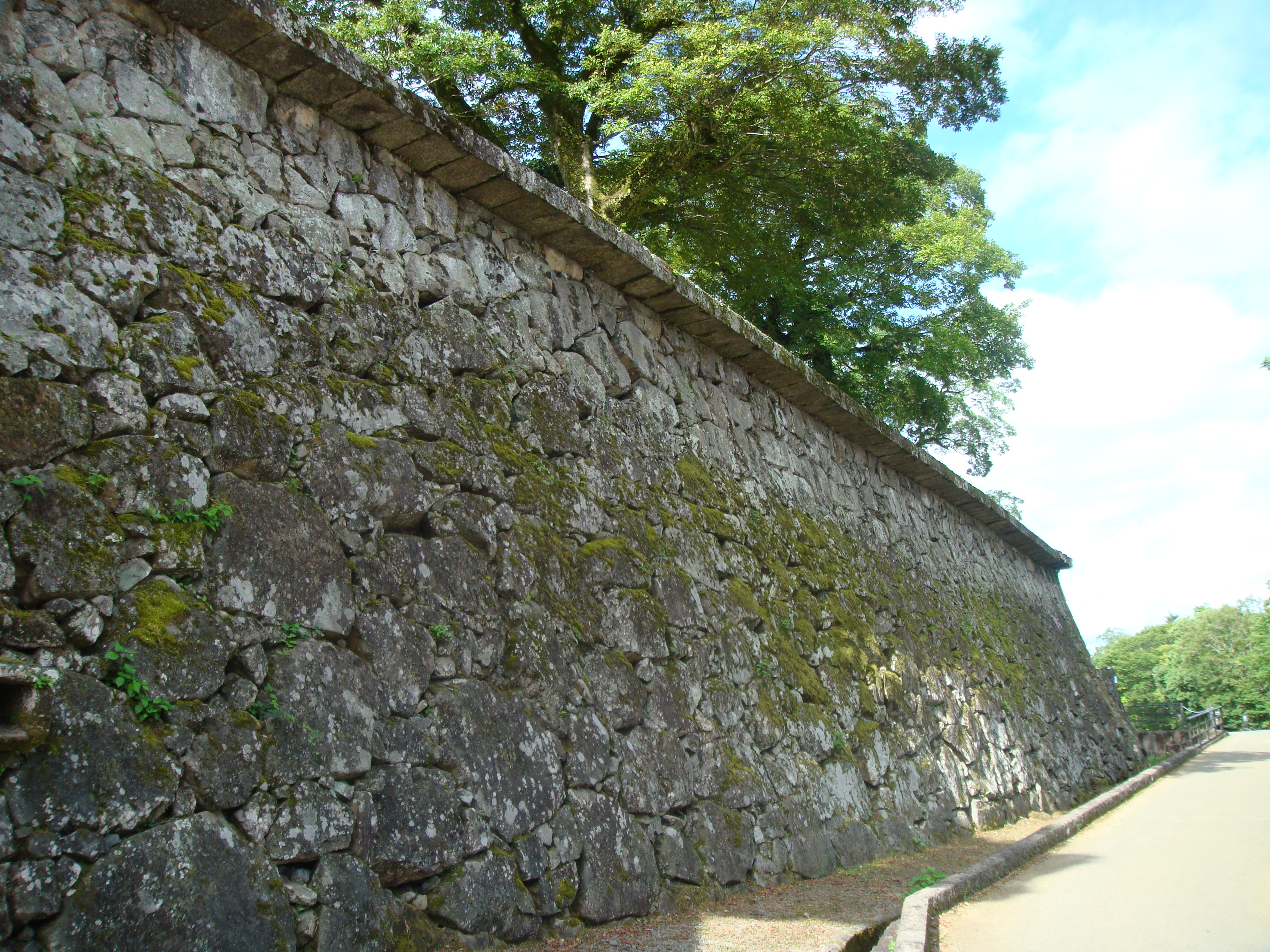 Hitoyoshi Castle, Kumamoto Pref